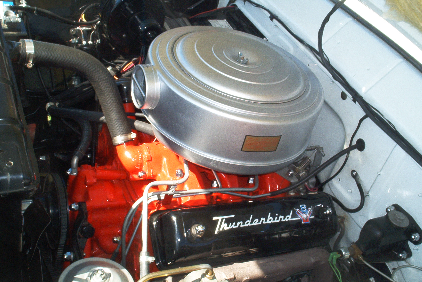 A stock 292 Ford Y-block V8 in a 1955 Ford Crown Victoria Skyliner. Taken at the Goodguys East Coast Nationals, Sept. 14-16th, 2007.